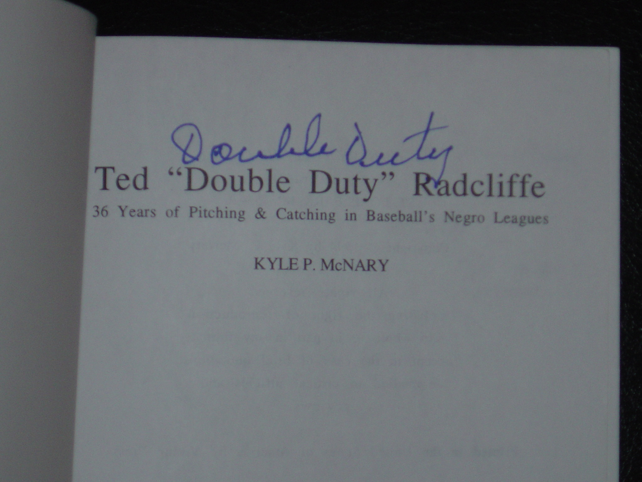 Half title or title page of McNary, Kyle P. Ted “Double Duty” Radcliffe: 36 Years Of Pitching & Catching In Baseball's Negro Leagues (Minneapolis: McNary Publishing, 1994) autographed by its subject Ted Radcliffe. Photographed by Theo Clarke and released by him to the public domain.